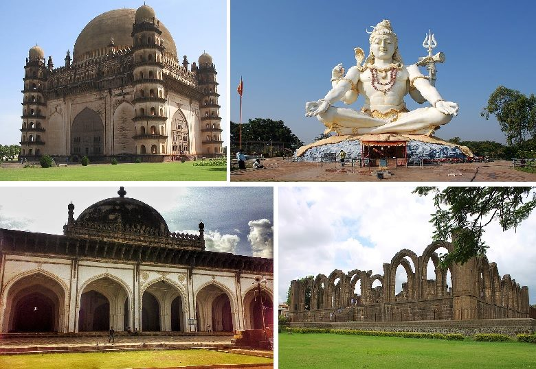 clockwise from top: Gol Gumbaz, Shivpuri Monument, Bara Kaman, Jama Masjid Bijapur. The montage is made of four images, all copyright-free and on Wikimedia commons. They images are File:GolGumbaz2.jpg; File:Shiva IMG 5051.jpg; File:Remains of Barah Khaman - 2.jpg; File:Jamma Masjid, Bijapur.jpg